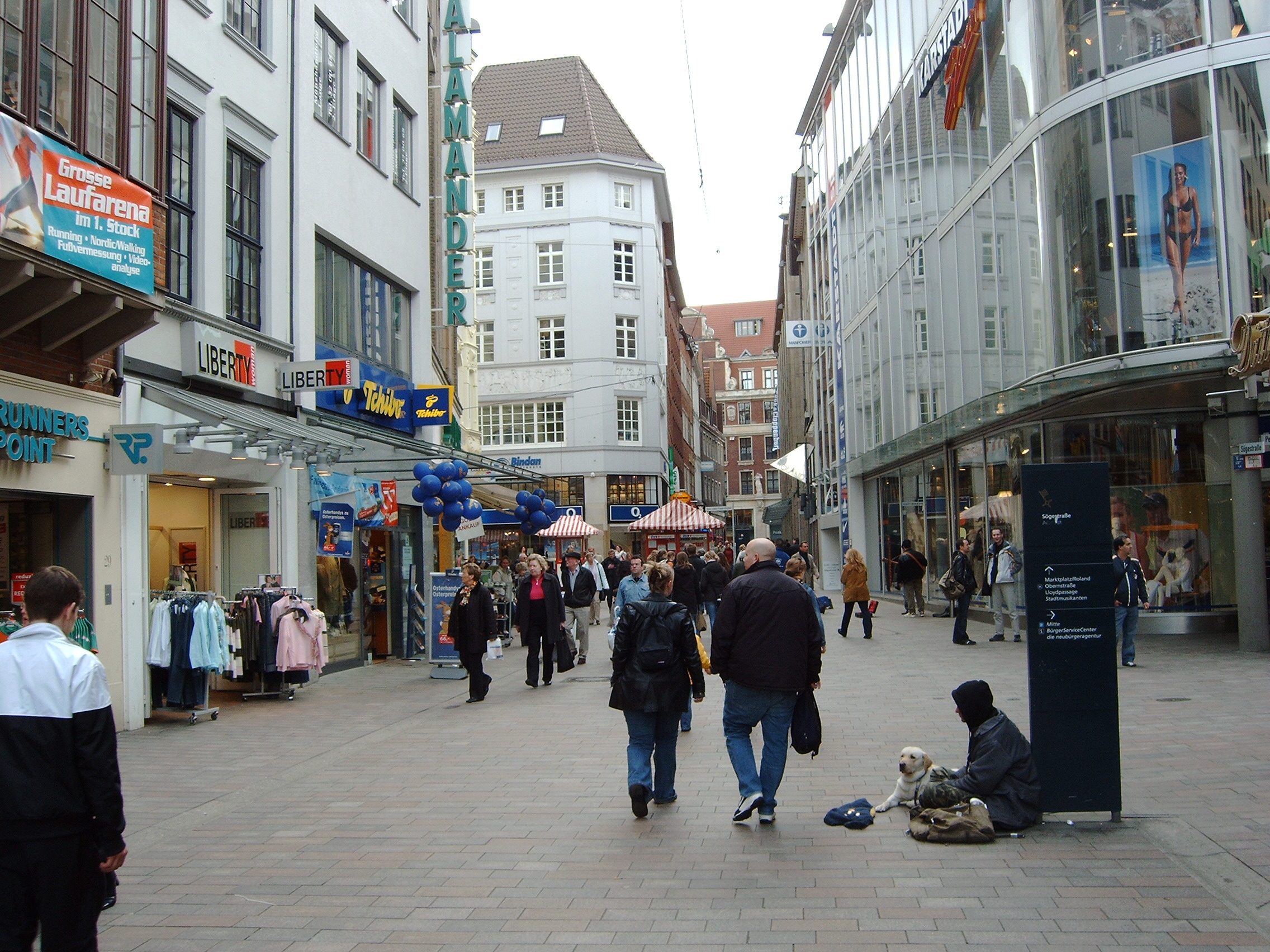 Bremen, Germany Down town